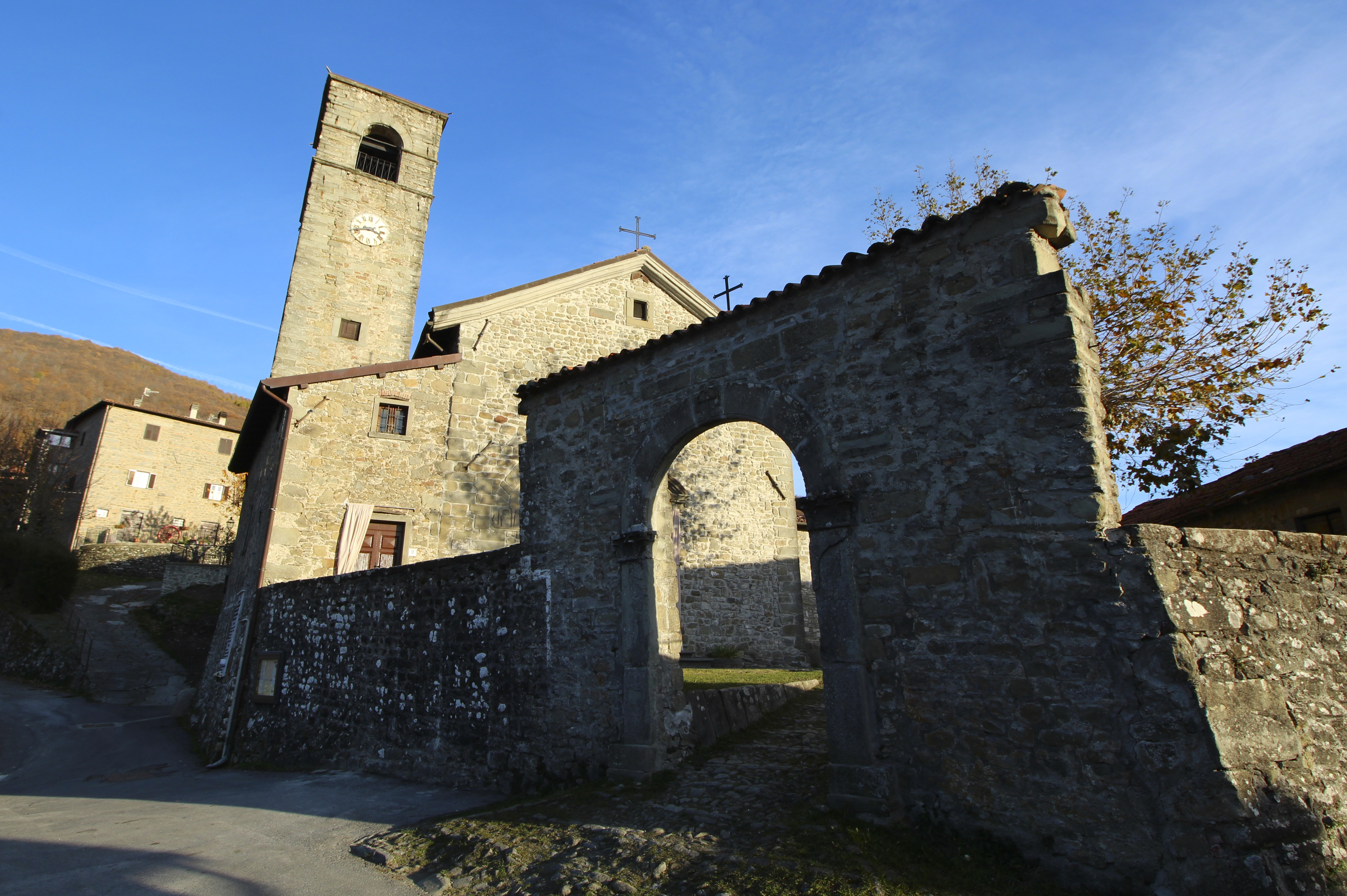 Church Santa Maria Assunta, Borsigliana, hamlet of Piazza al Serchio, Garfagnana, Province of Lucca, Tuscany, Italy